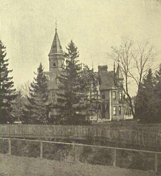 Oaklands, residence of the late Senator John Macdonald. Today, home to De La Salle College (Toronto).